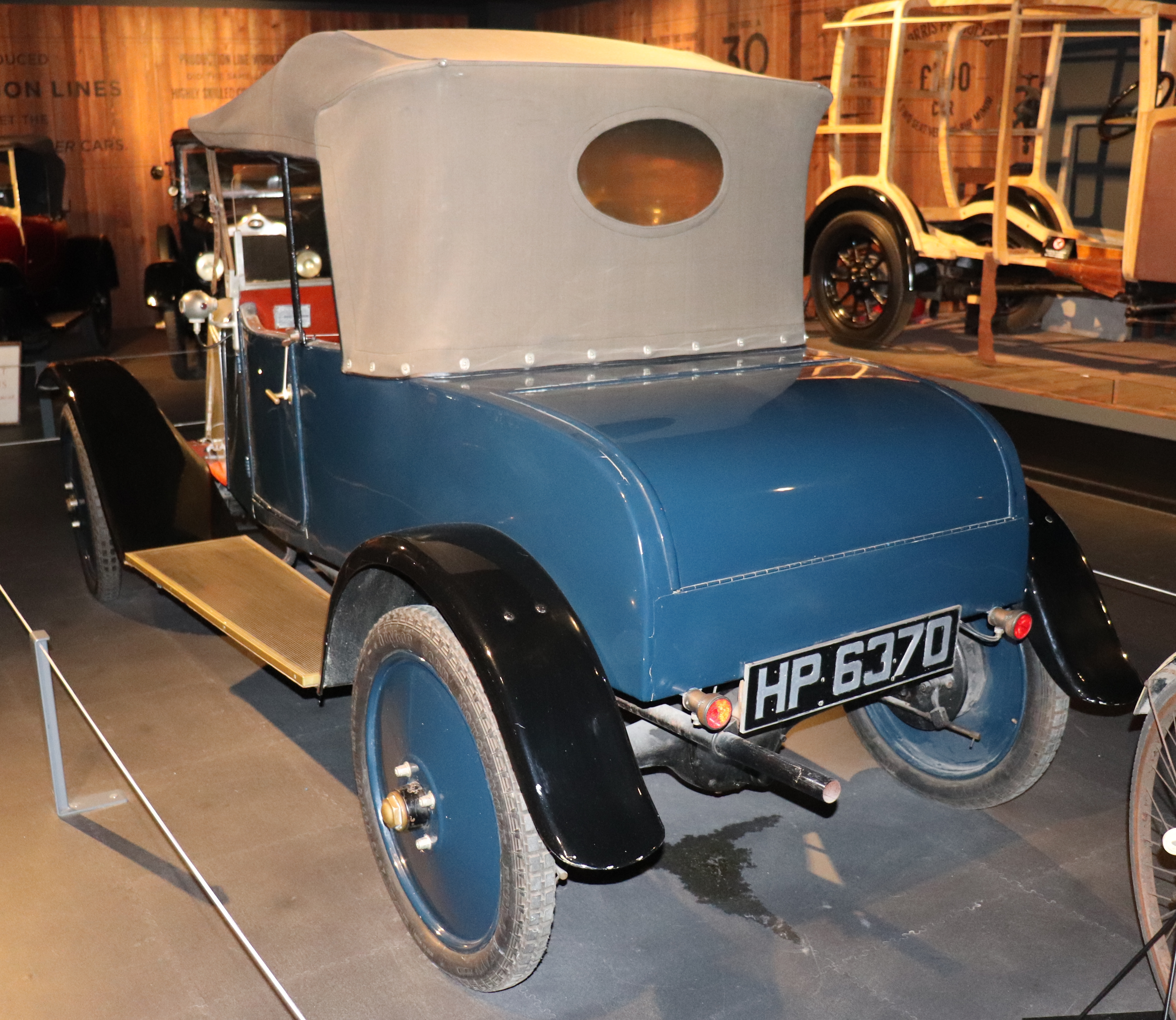 1923 Albatros 10HP Rear Taken in the Coventry Transport Museum